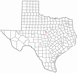 Locator map of the Town of Town of Blanket — in Brown County, central Texas.